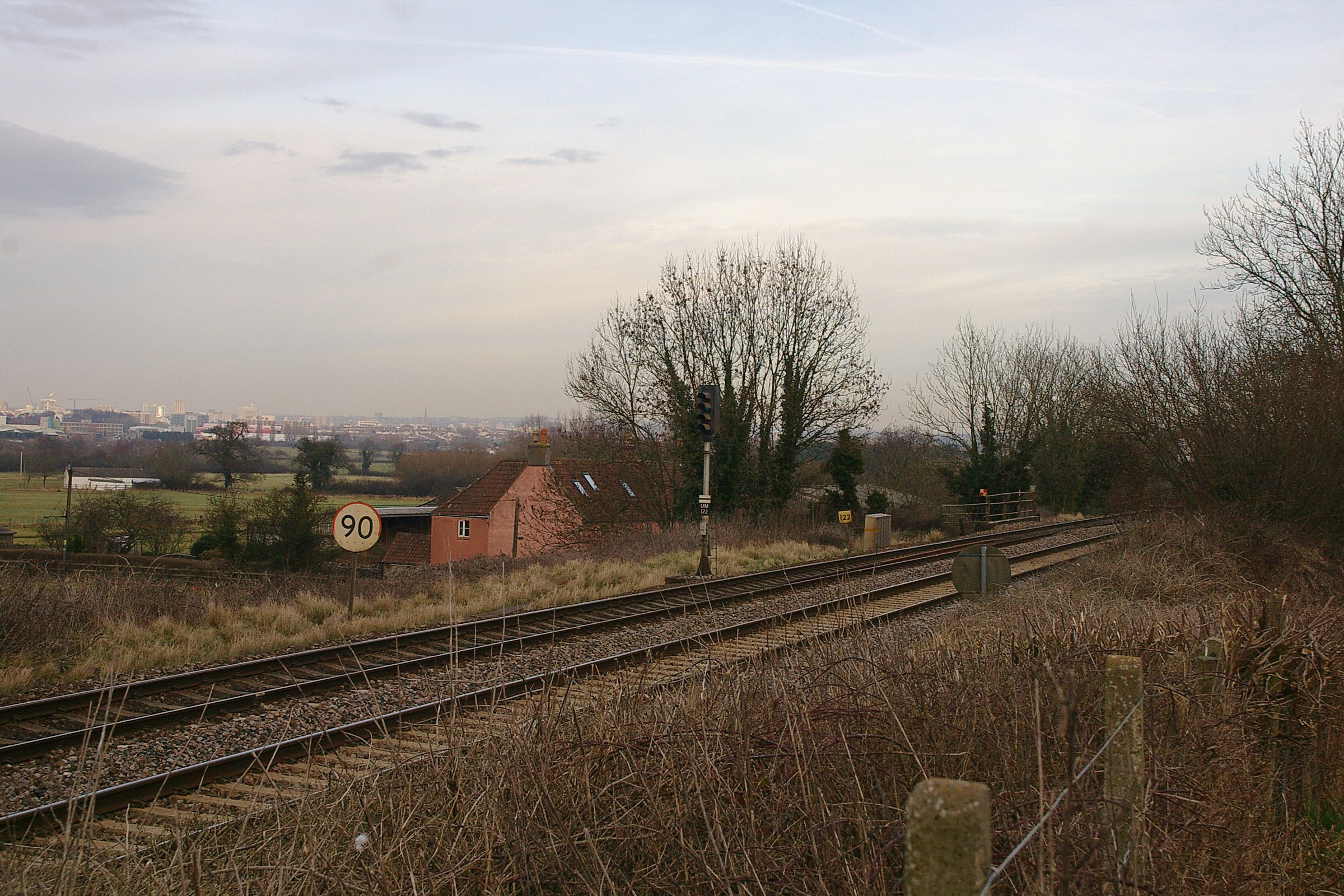 Site of Long Ashton station, just off Yanley Lane.